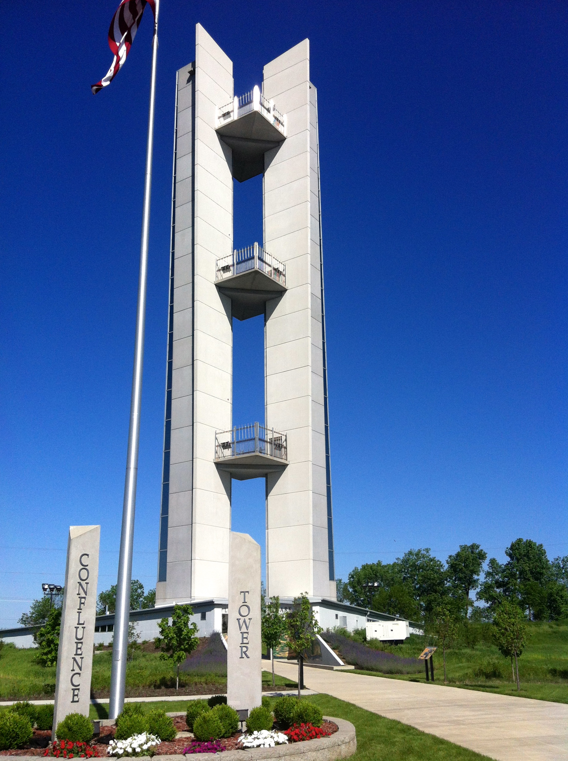 The Lewis and Clark Confluence Tower located on the Illinois bank of the Mississippi River at the confluence of it and the Missouri River.